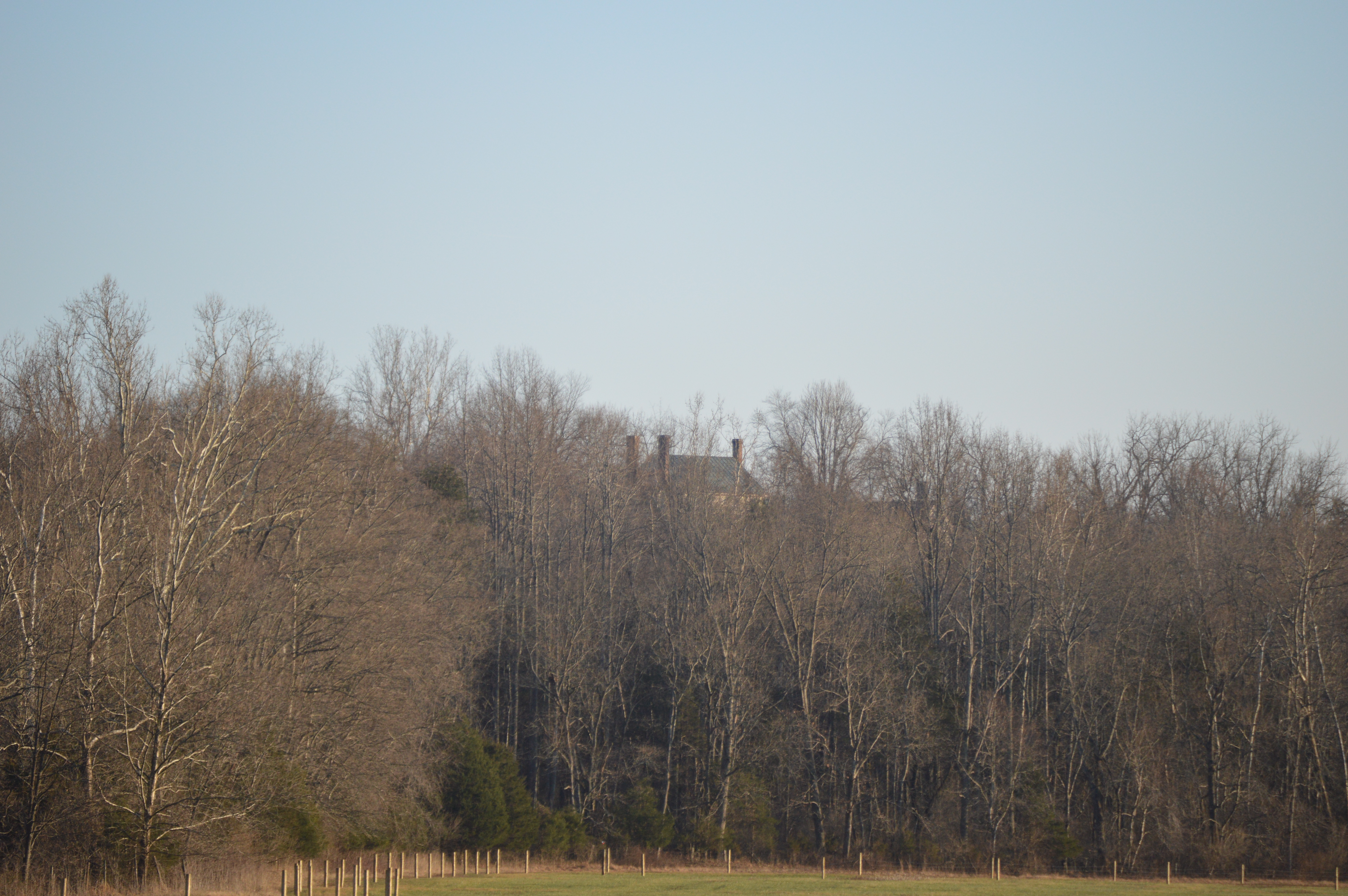 Distant view from the north (from Amicus Road) of the Locust Grove farmhouse, located at the end of Davis Road south of Stanardsville in Greene County, Virginia, United States. Built in 1798, it is listed on the National Register of Historic Places.